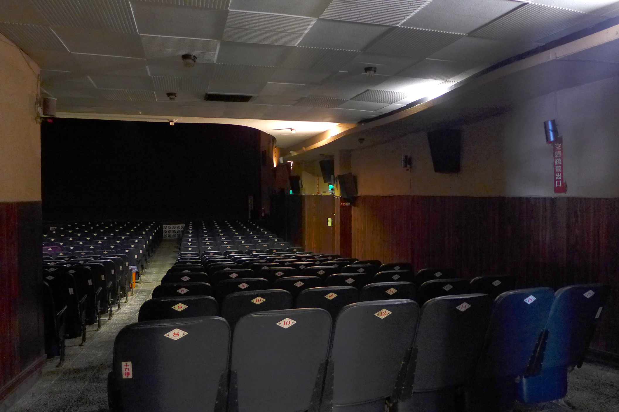 Chin Men Theater Interior